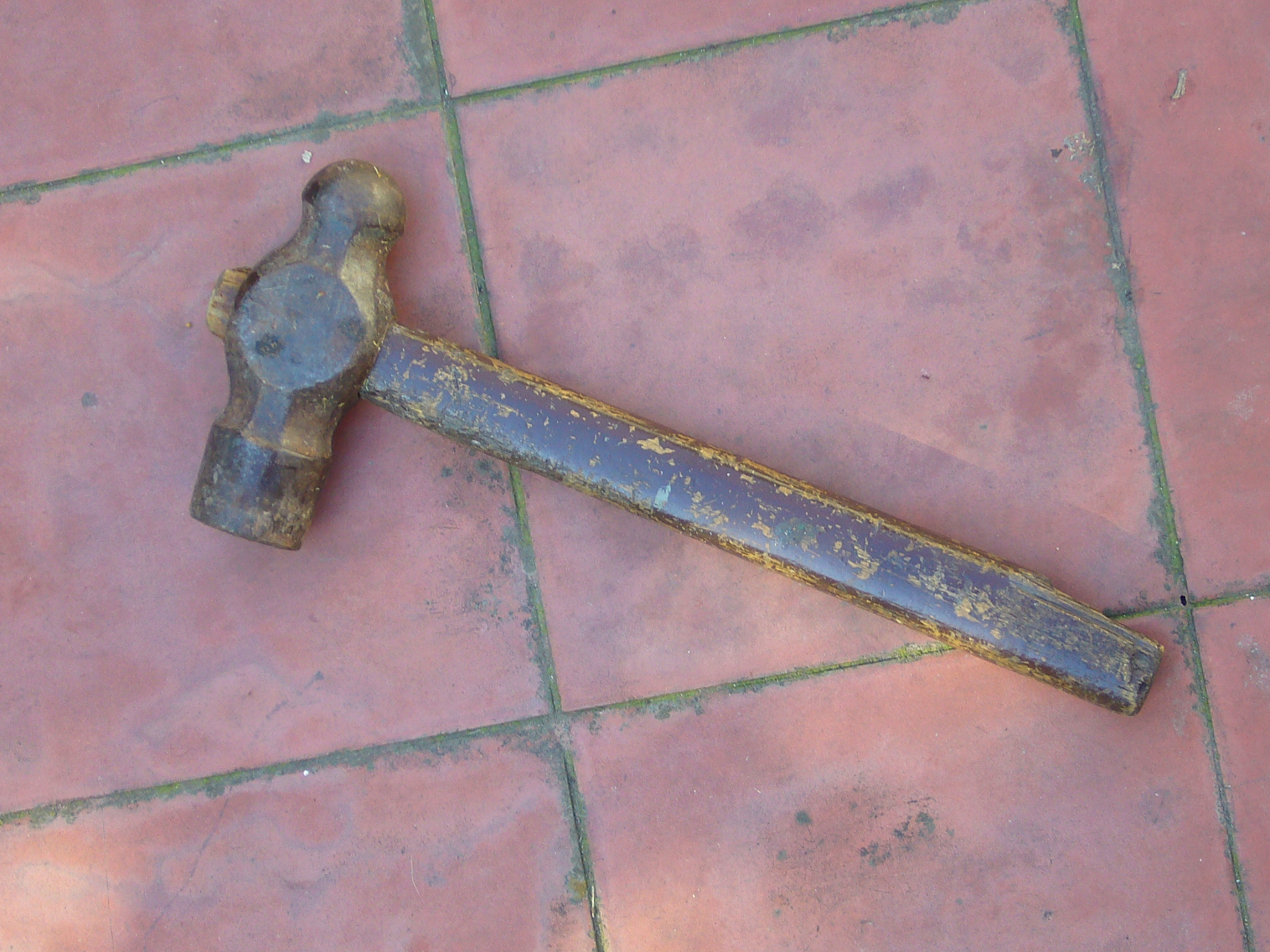 Ball-peen hammer